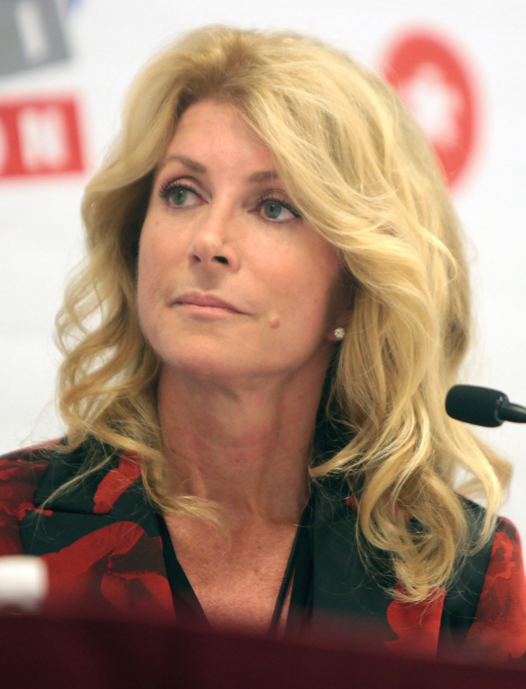 Wendy Davis speaking at Politicon in Pasadena, California.